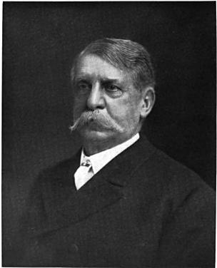 John Taylor, Trenton New Jersey politician and founder of Taylor Provisions Company and Taylor Ham (Pork Roll).